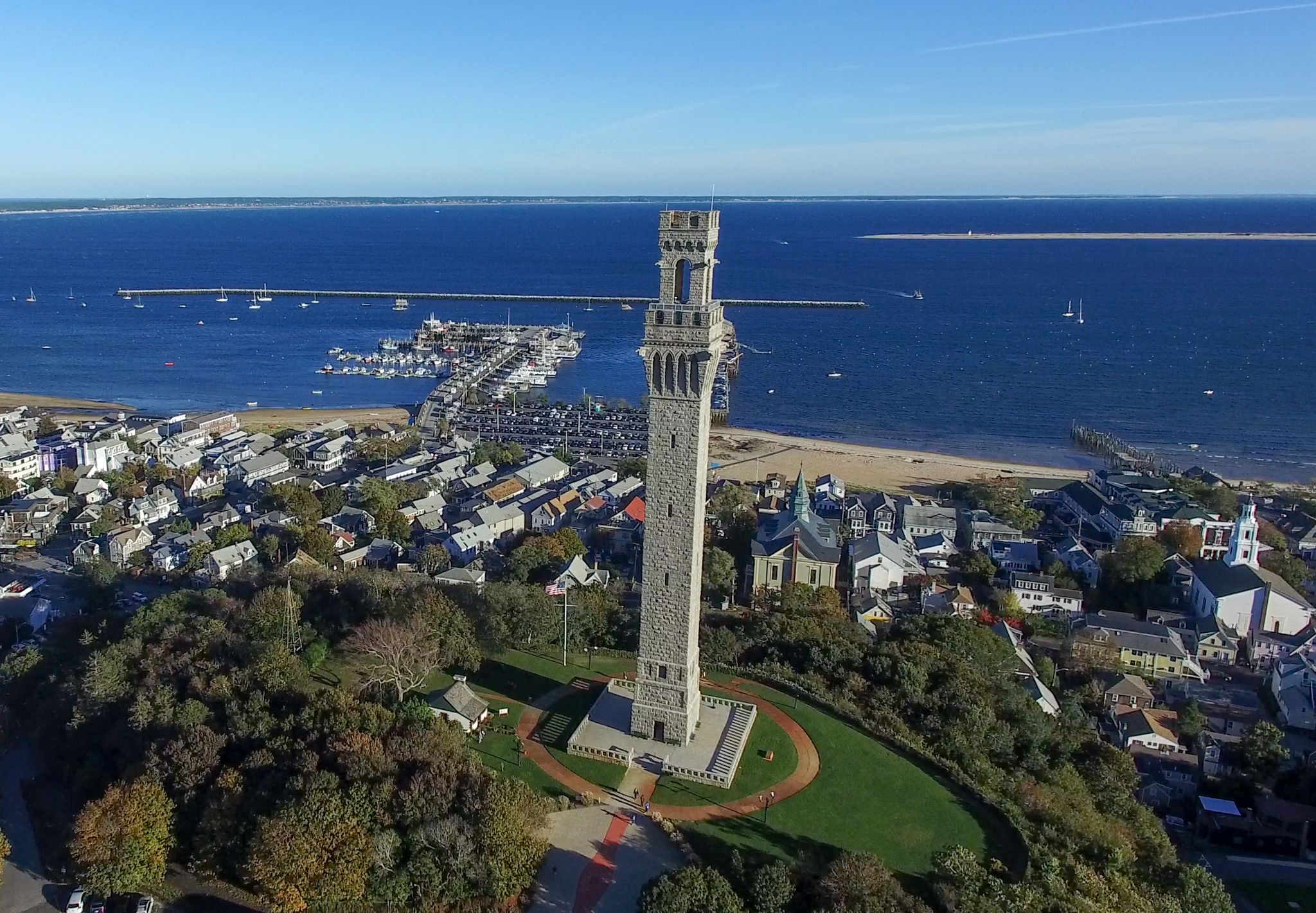 The Pilgrim Monument in Provincetown, Massachusetts, photographed from the air